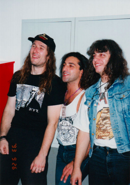 Rage in 1993 - From Left to Right: Peavy, Chris, Manni